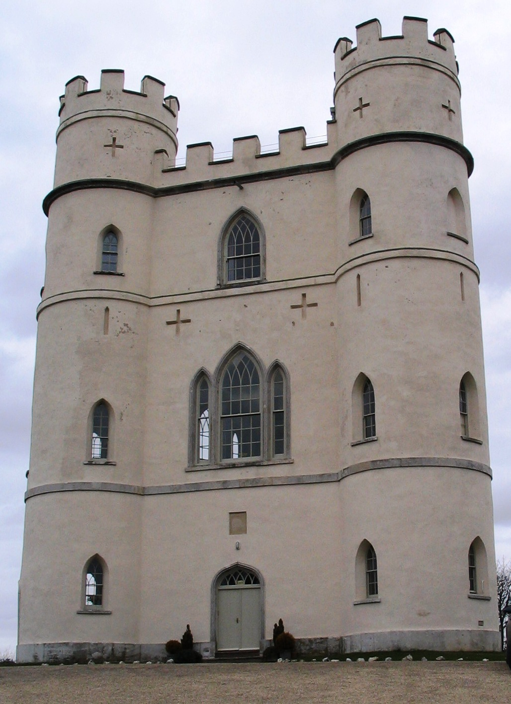 Haldon Belvedere tower located on Haldon Hills, Devon, England